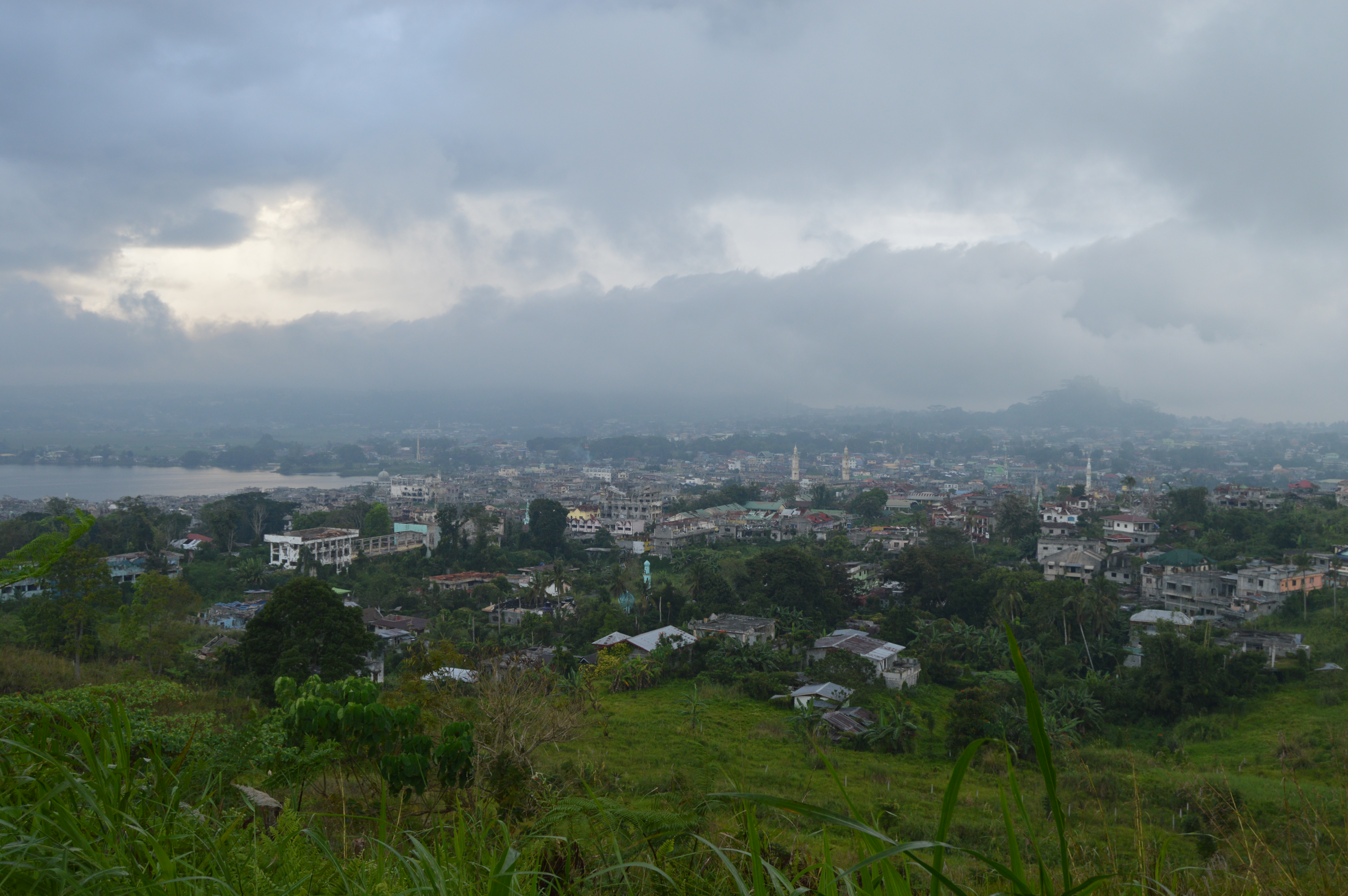 Marawi City as view in November 2018, more than a year after the Battle of Marawi ended. Note the damaged structures on the left side of the city along the shores of Lake Lanao. Photo taken from the Old Lanao del Sur Capitol site in Calocan West.